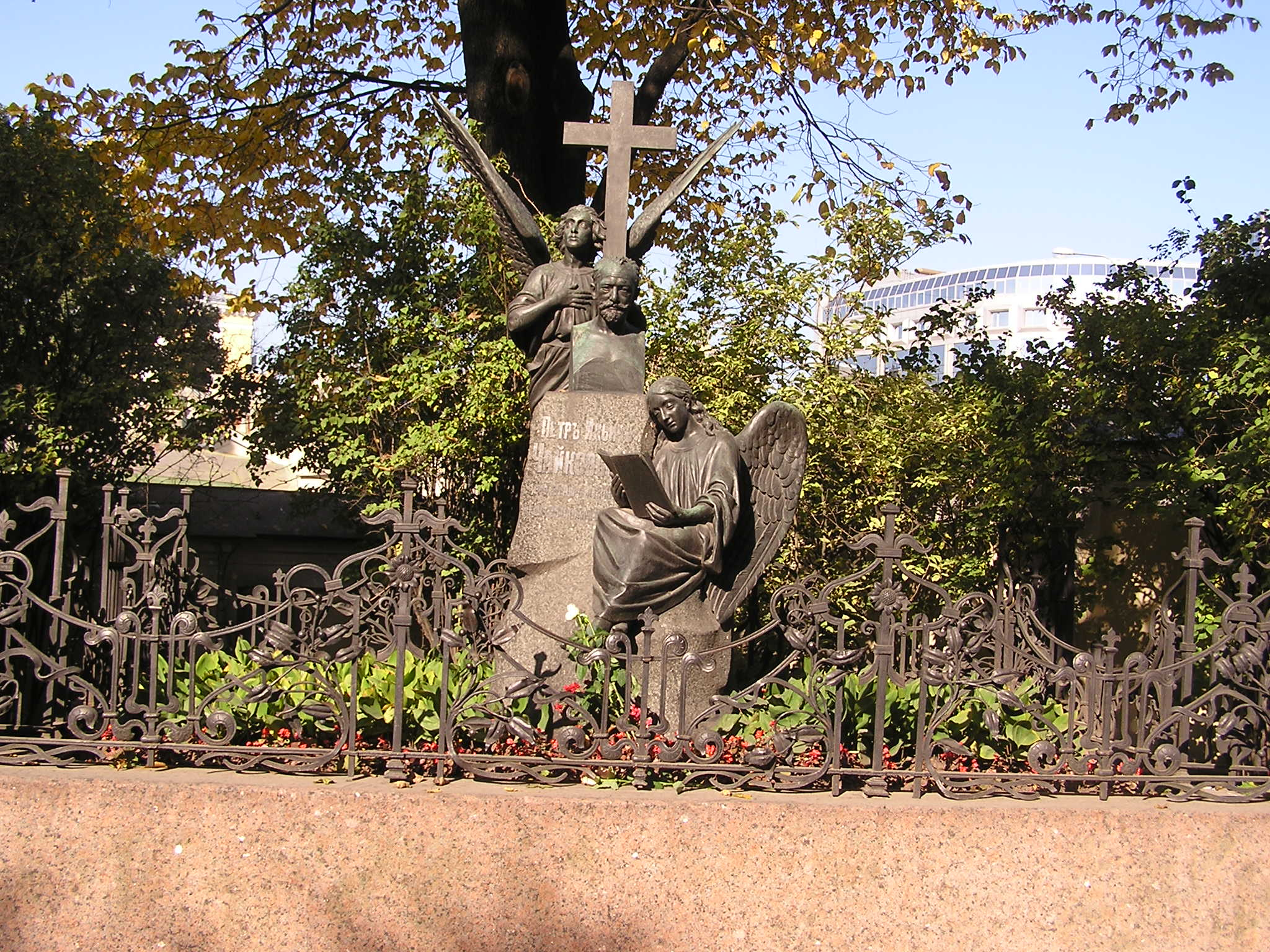 Tikhvin Cemetery